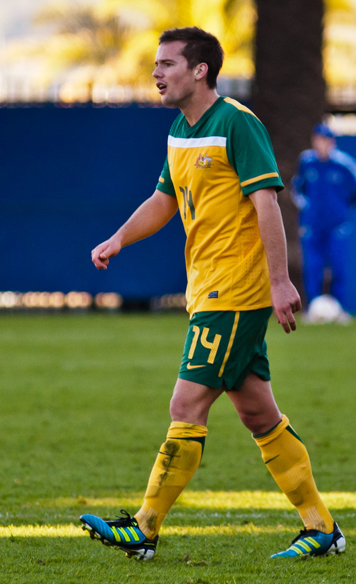 Matthew Foschini playing for the Australian Olympic Football team against Yemen in 2011 at Gosford, New South Wales.